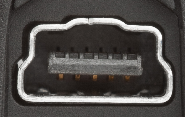 HDMI and USB Mini B receptacles at the side of Canon Digital IXUS 220 HS